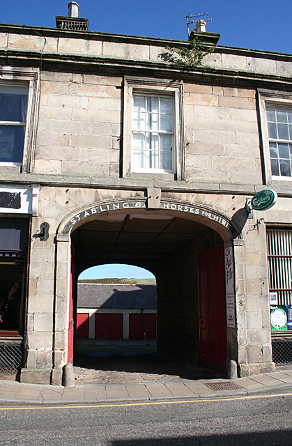 Aul' Fife Arms Pend